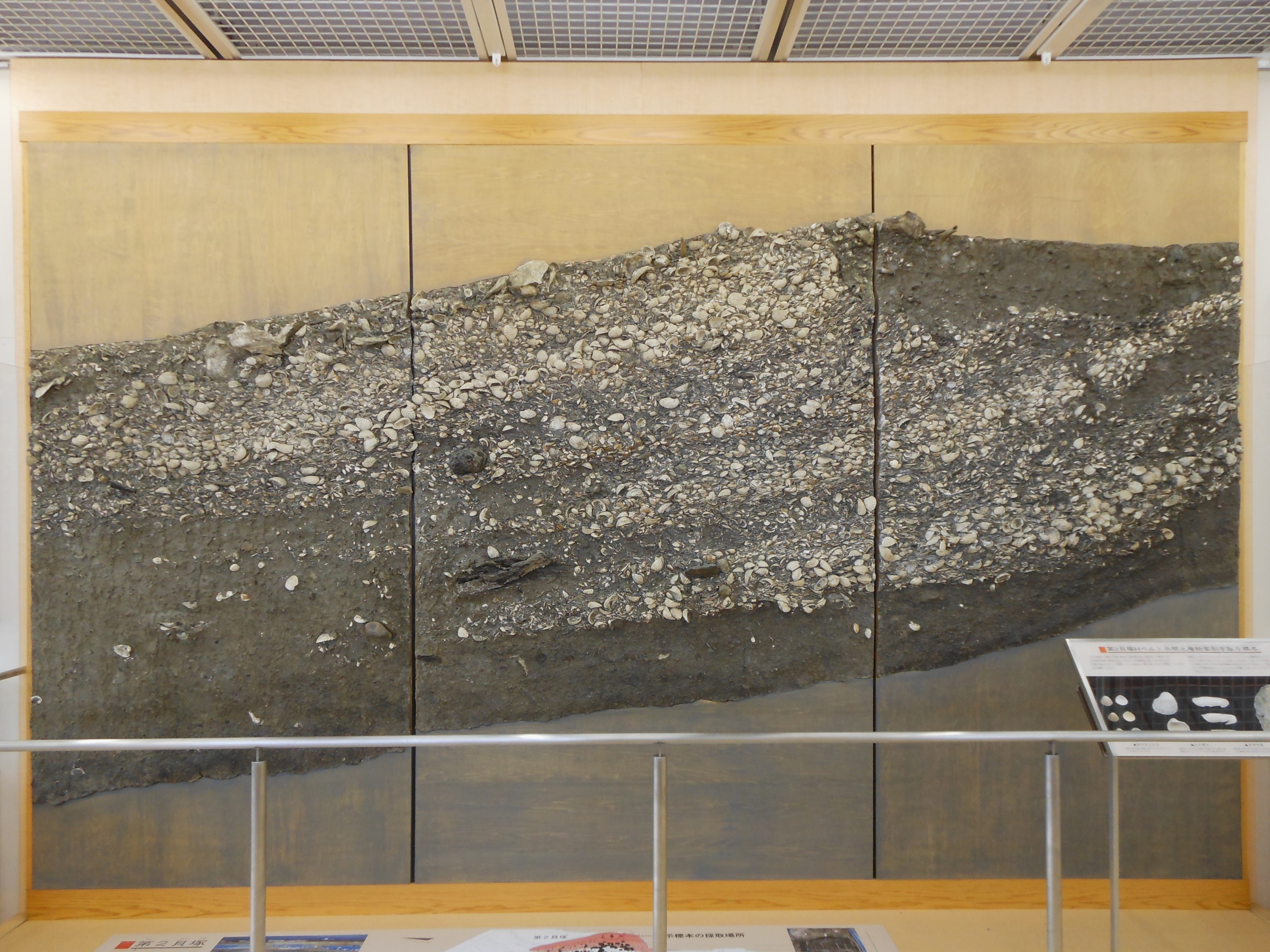 Displayed around 8,000 years ago shell midden of Higashimyō Site in Saga city, Saga prefecture, Japan.